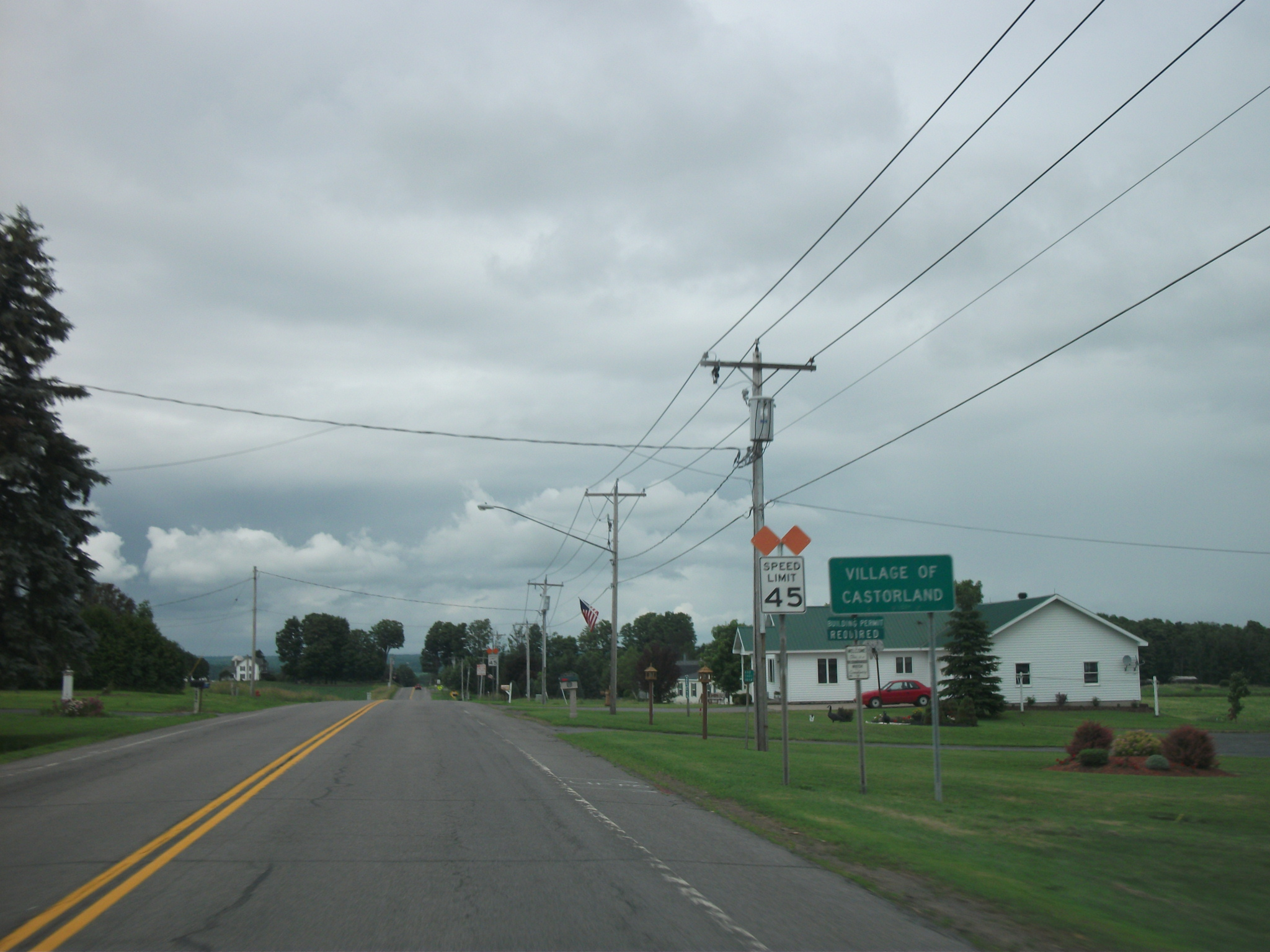 New York State Route 410 eastbound at the village of Castorland/town of Denmark line.